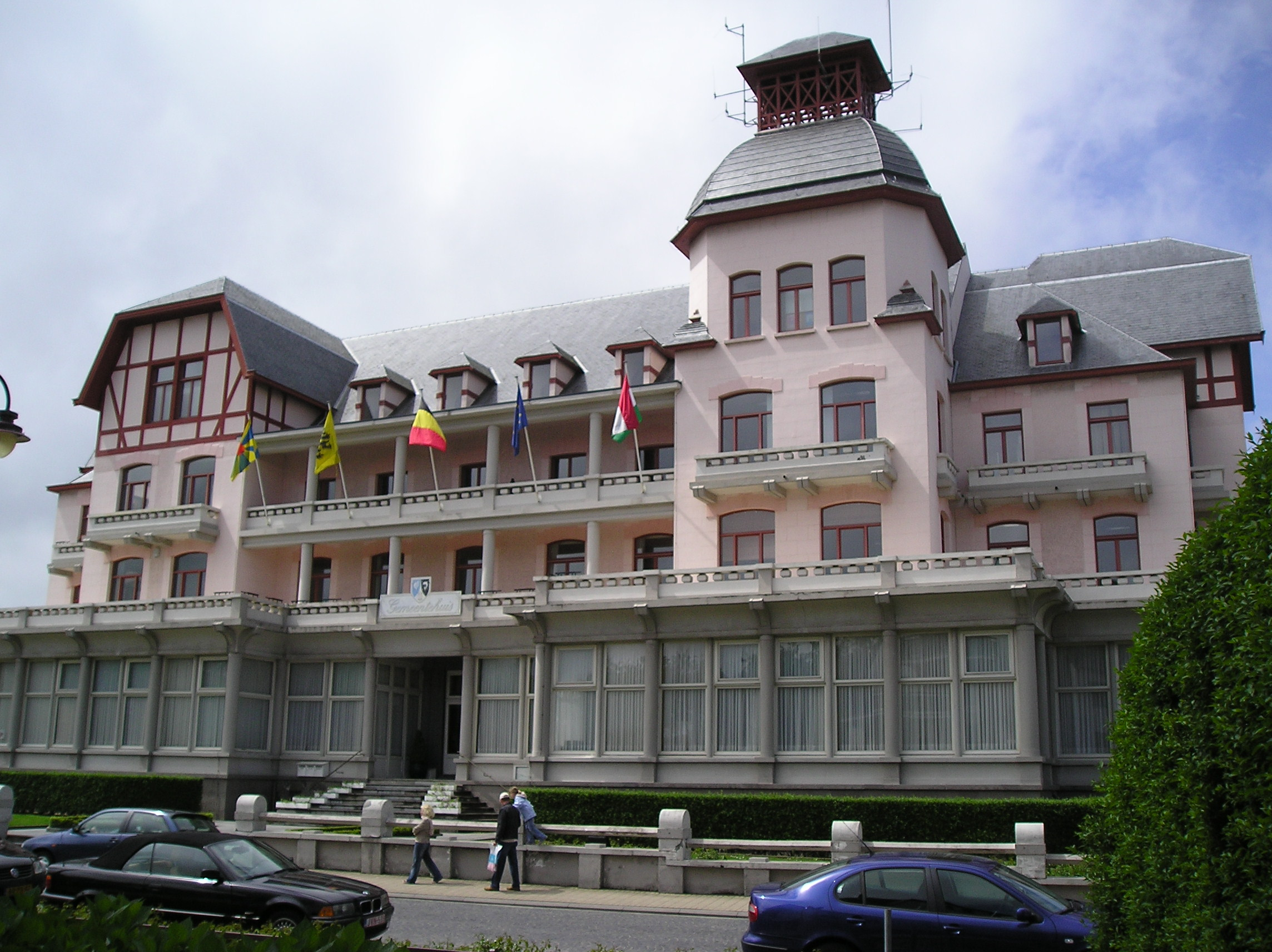 Town hall of the seaside resort town De Haan.